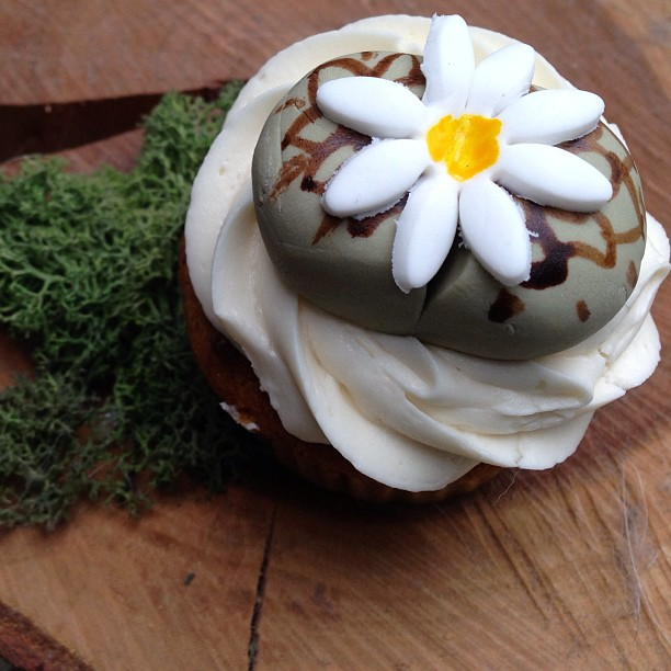 succulent cupcakes